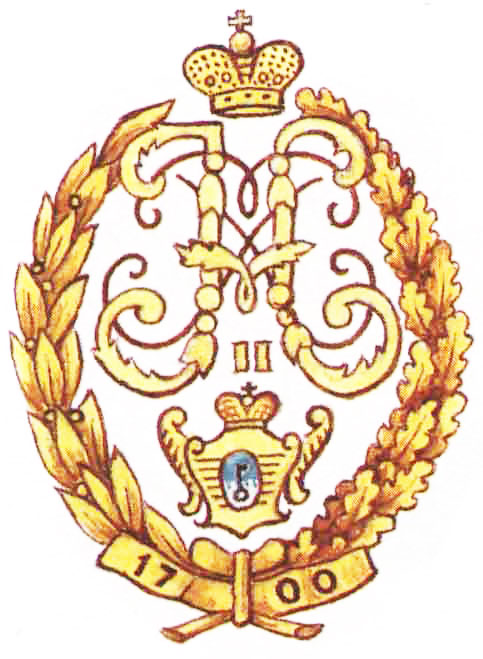 Badge of Shliselburgsky 15-th Regiment